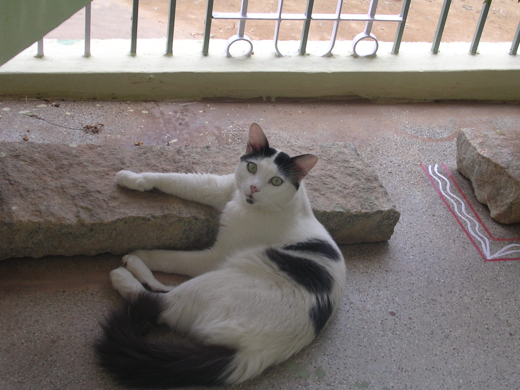 Shot of Taci cat